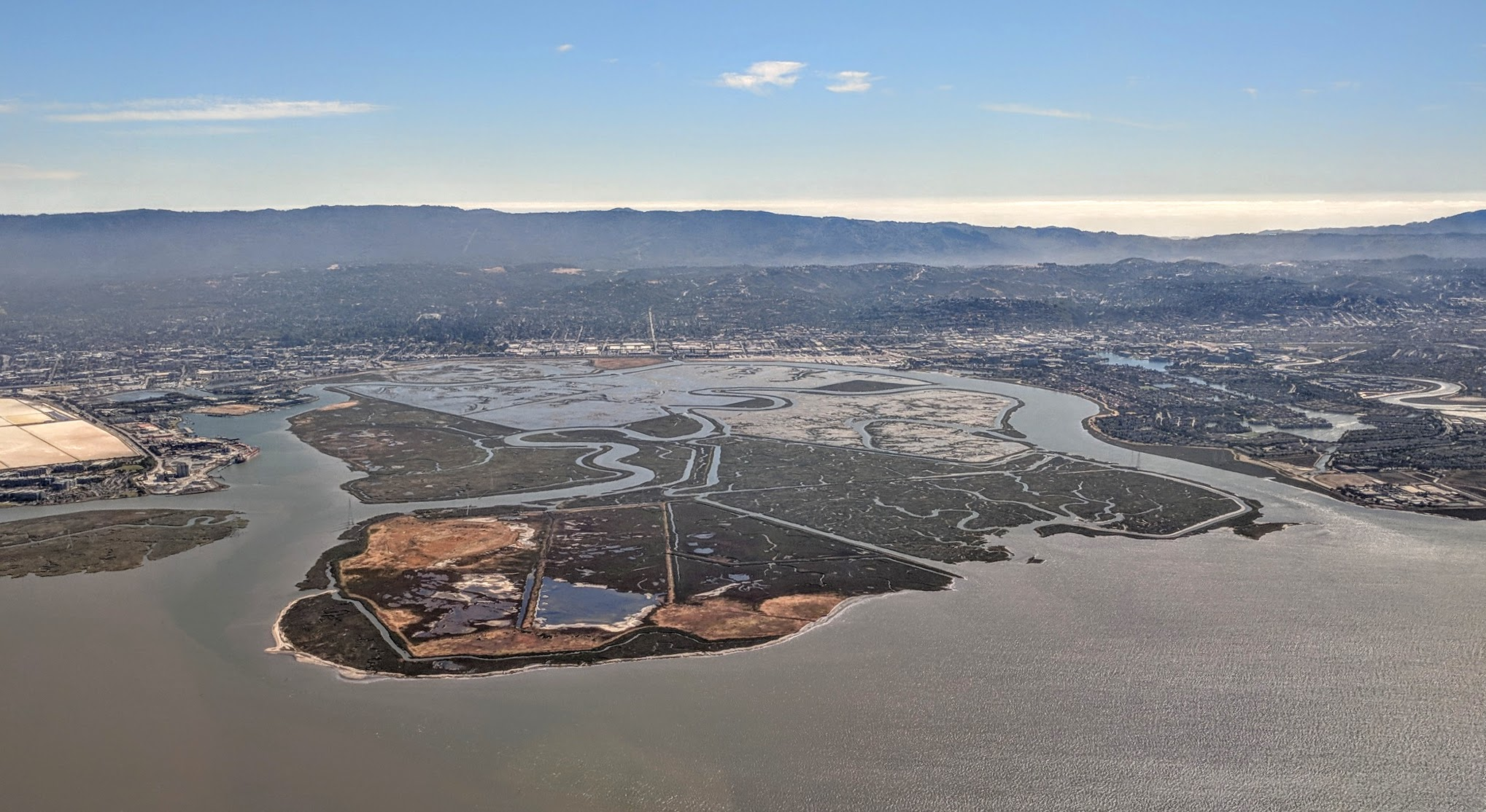 View of Bair Island from the SFO landing pattern, June 2018.